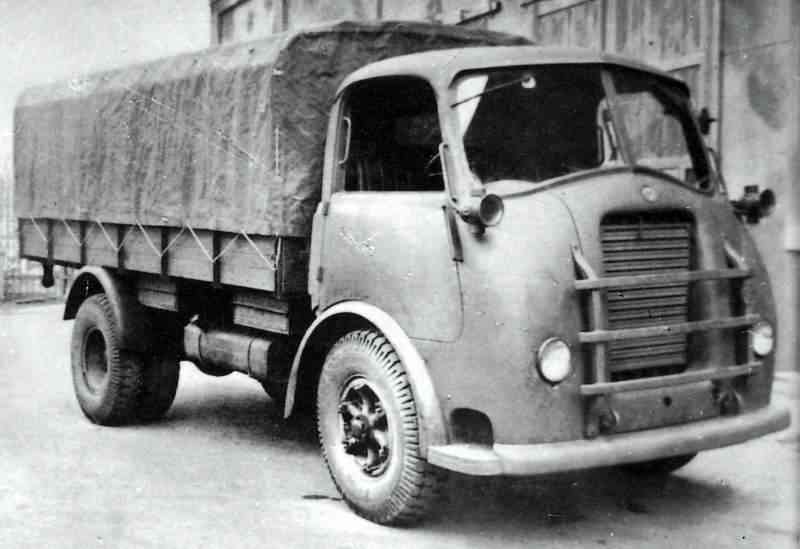 Summary: Production version of the Alfa Romeo 800.